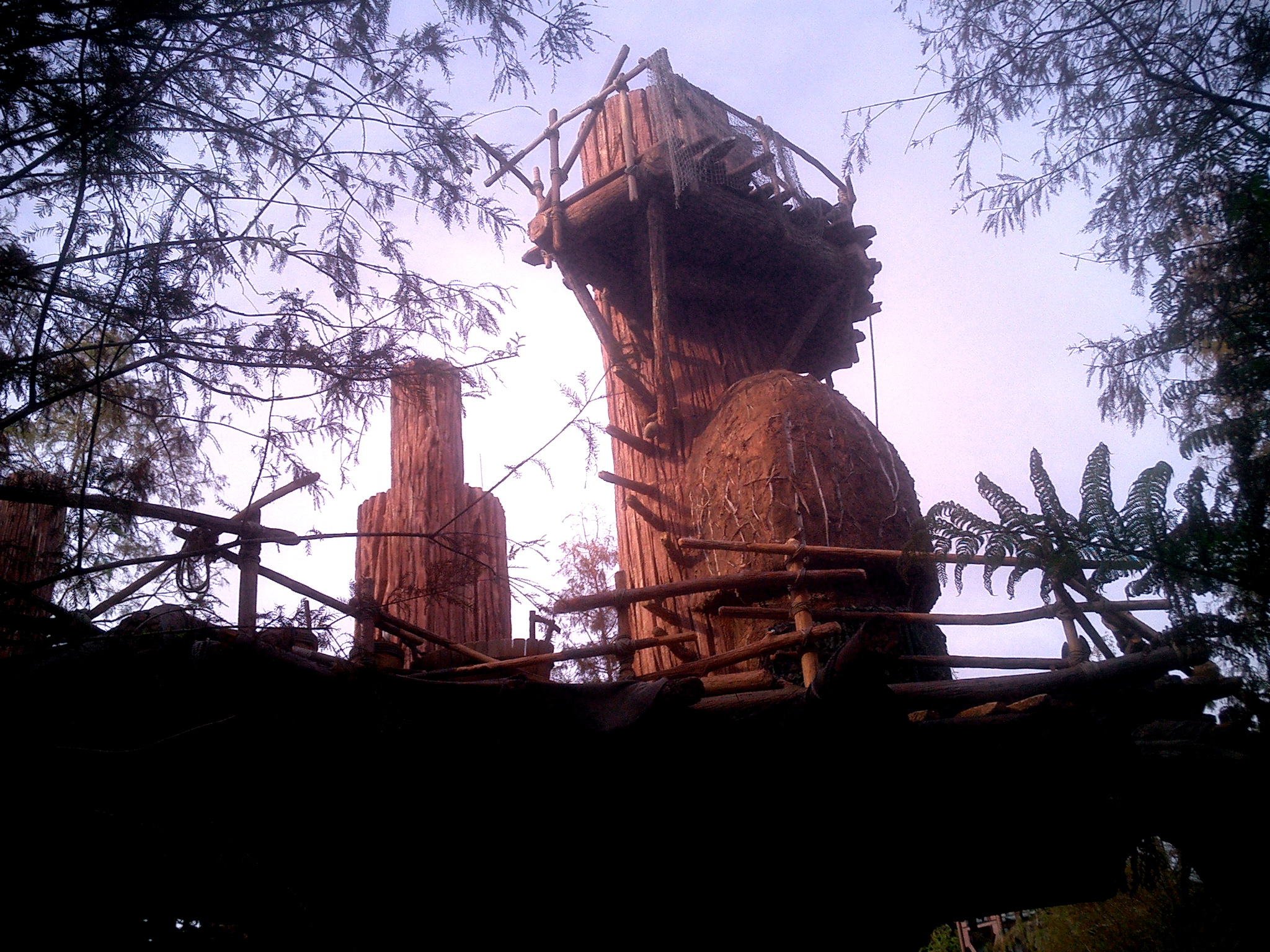 Star Tours Ewok Village, Disney-MGM Studios, Walt Disney World, Orlando, Florida